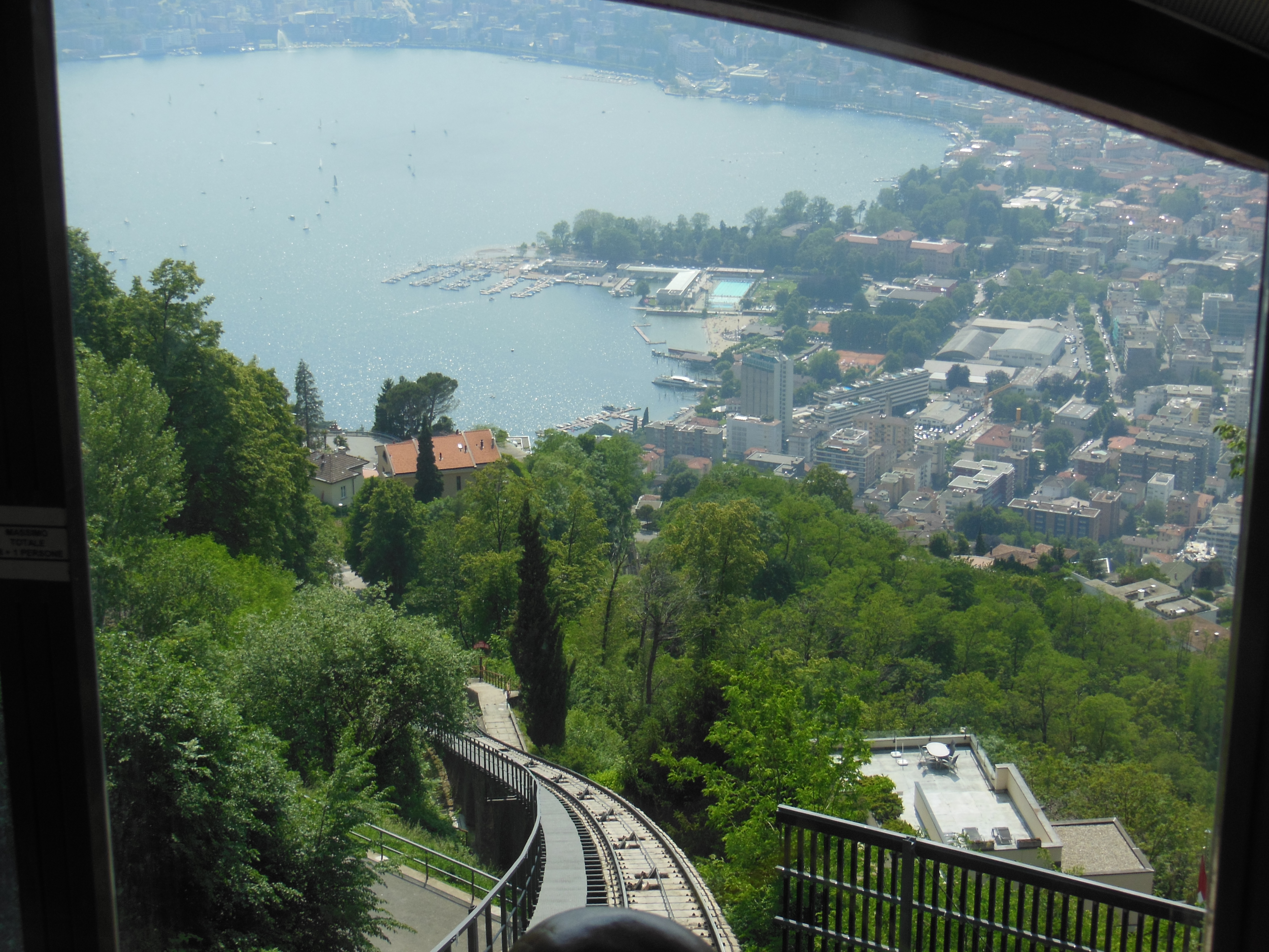 Looking downhill to Lugano from a car passing through Aldesago whilst descending the upper section of the Monte Brè funicular. The car is approaching the Aldesago stop, which is just visible beyond the road bridge. For more information, see Wikipedia articles Monte Brè funicular and Aldesago.